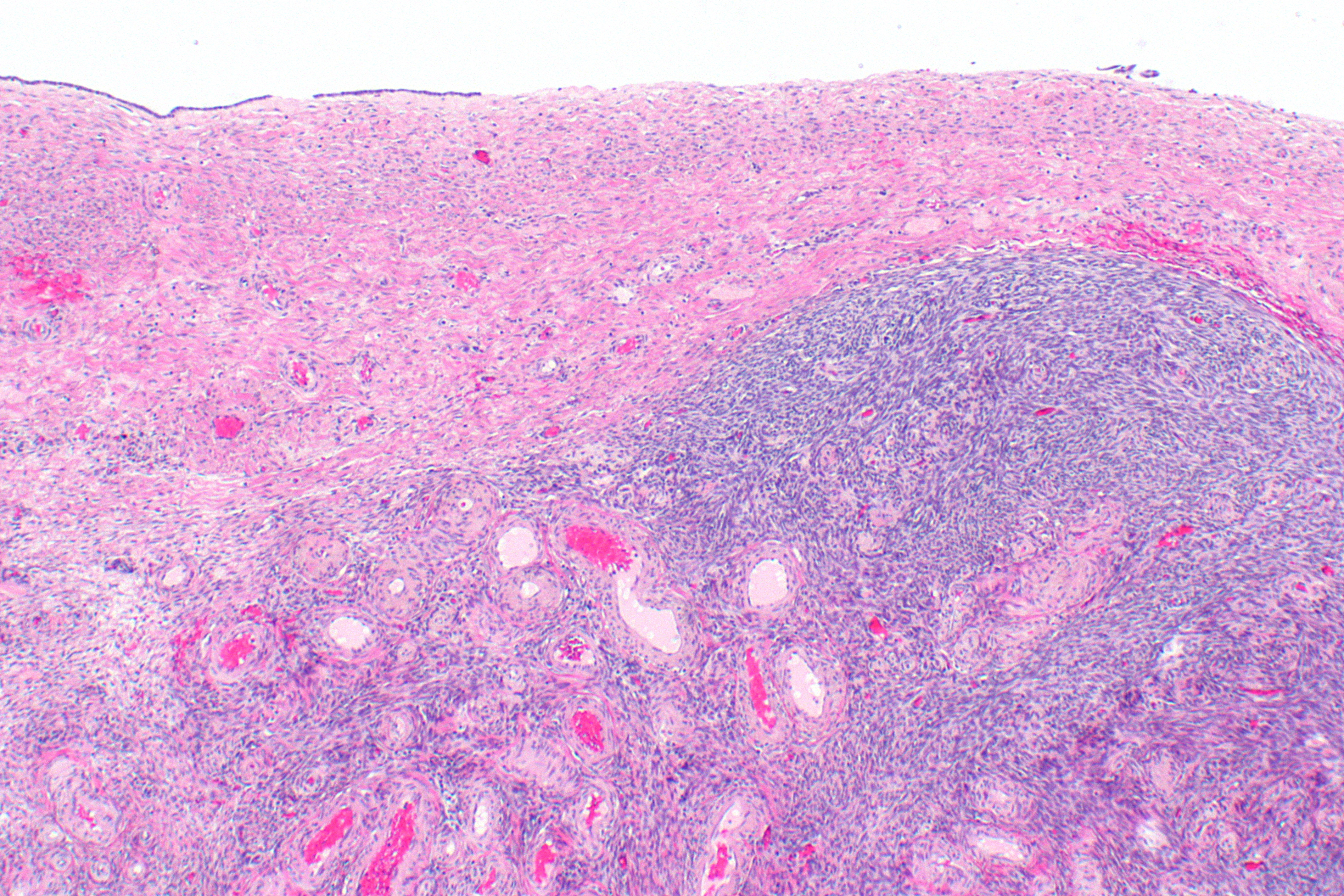 Micrograph of a serous cystadenoma of the ovary. H&E stain. Related images OSC - low mag. OSC - intermed. mag. OSC - high mag. OSC - intermed. mag. OSC - high mag. OSC - very high mag. OSC - extremely high mag.